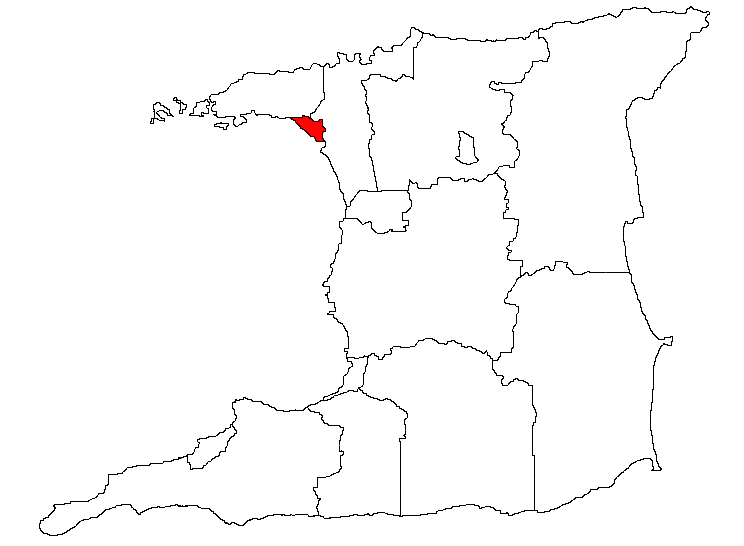 Location map of the City of Port of Spain, Trinidad and Tobago